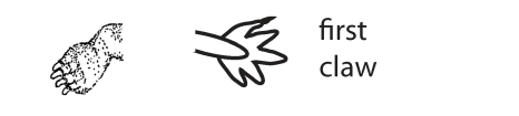 Standard Event System character depiction